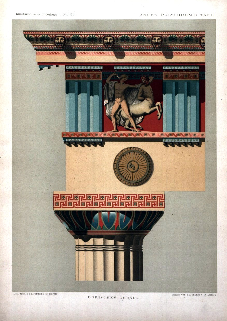 Coloured details of classic greec architecture.